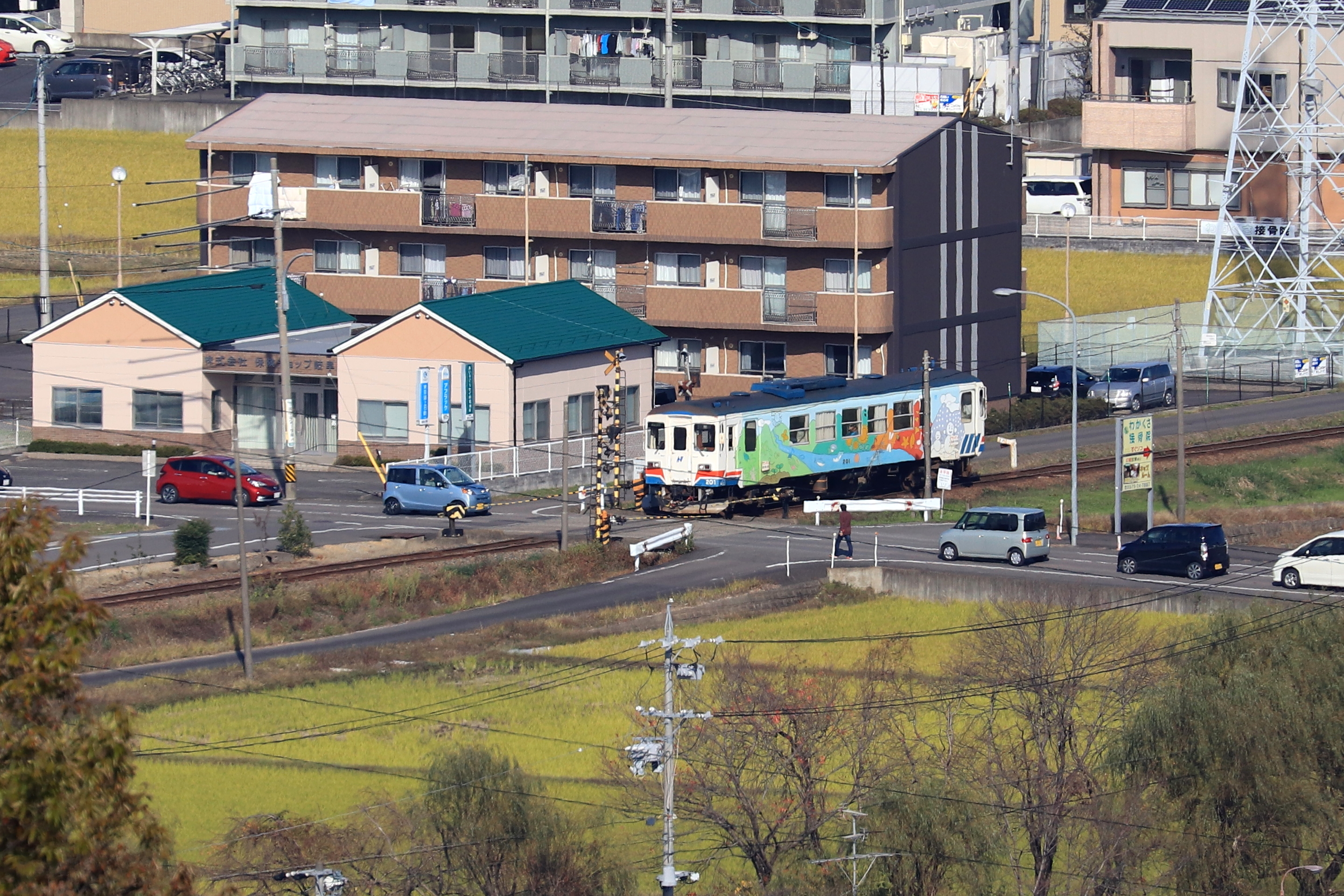 Nagaragawa Railway 201 seen from Mount Asakura in Seki, Gifu Prefecture, Japan.